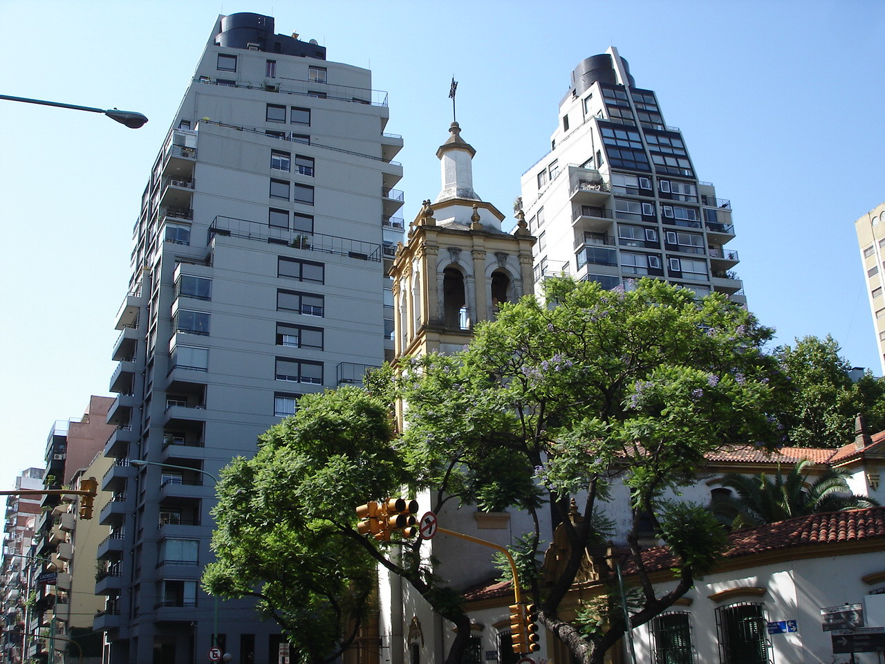 The Parish of St. Adela and the Arcos del Polo towers, in the Las Cañitas section of Palermo, Buenos Aires.